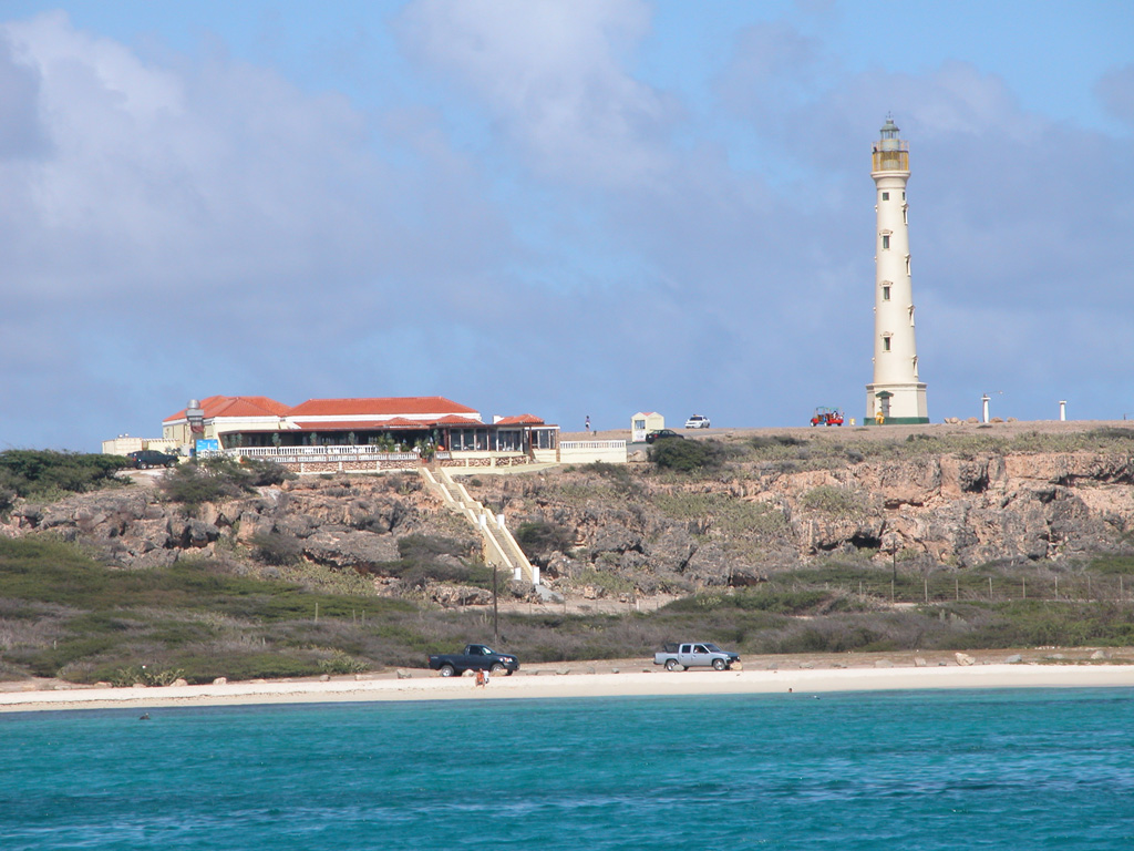 Taken by me Jan 2003